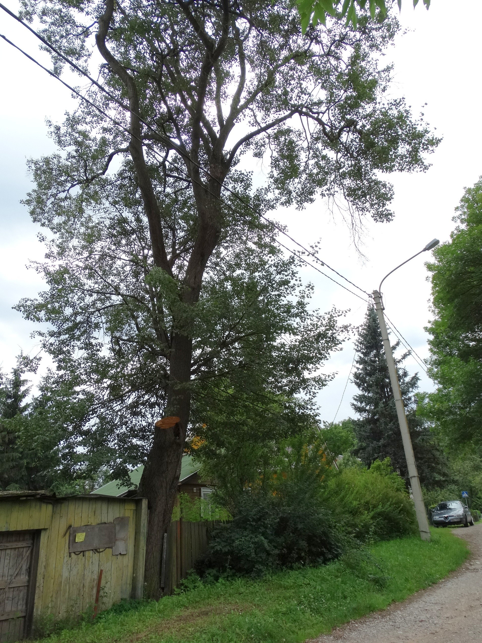 Lime tree in Žvėrynas, Vilnius, Lithuania